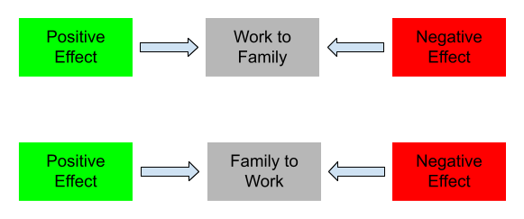 Work to Family Spillover Family to Work Spillover Positive Spillover Negative Spillover